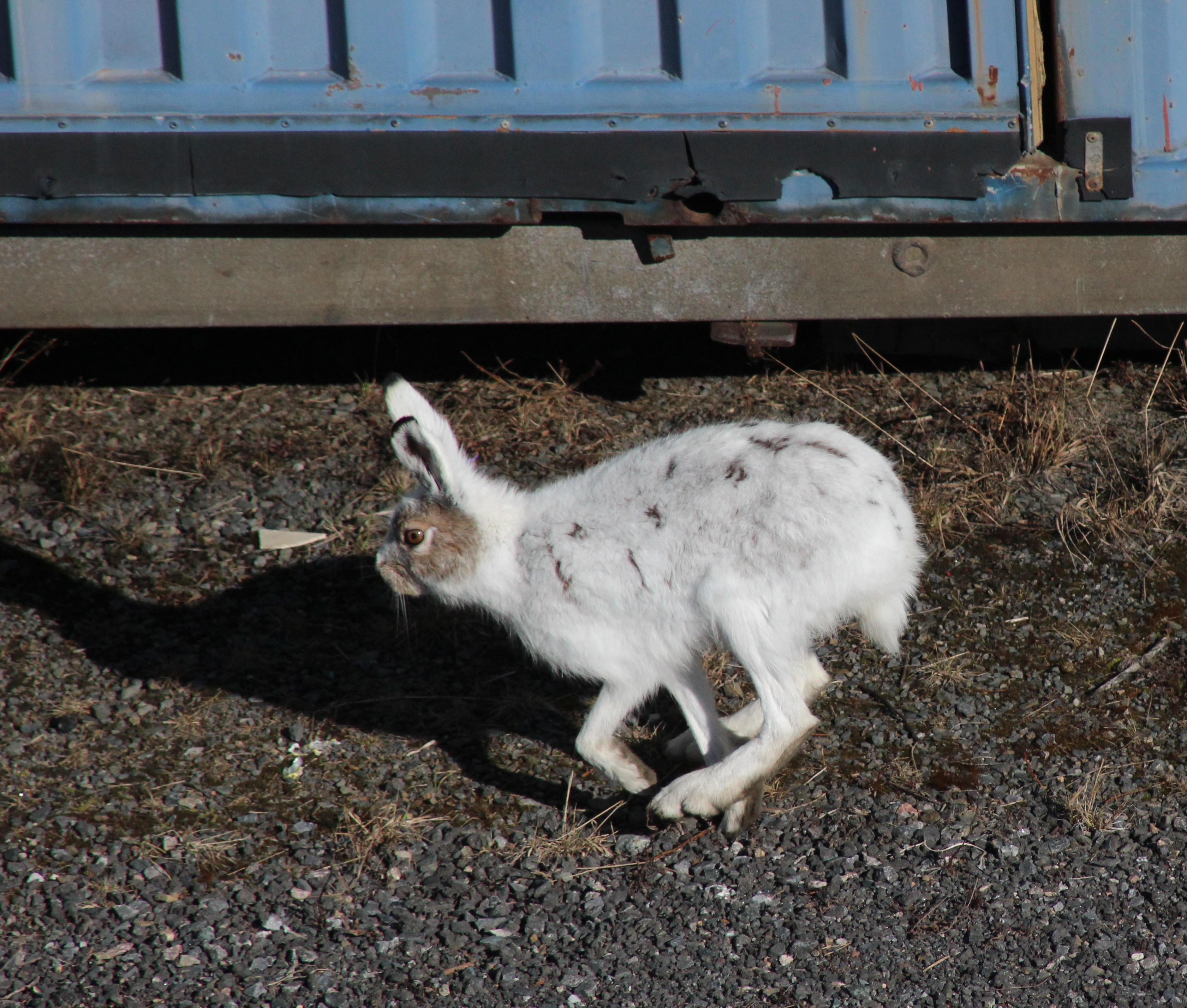 A mountain hare at the railyard in Nokela neighbouhood in Oulu. The hare is losing its winter camouflage.